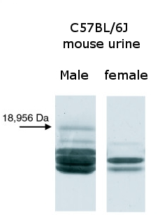 A 18,956 Da major urinary protein identified by gel electrophoresis. Urine pooled from five C57BL/6J males and five females was resolved by non-denaturing (native) electrophoresis. The specific band indicated by the arrow, Mup25, is exclusively in male urine, and the total abundance of Mup protein is much higher in males than females. The image is modified from Figure 6A from the source.